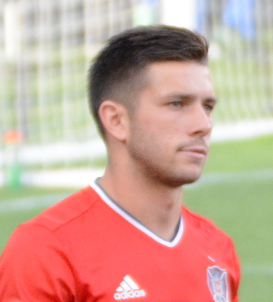 Taken at a U.S. Open Cup match between FC Cincinnati and Chicago Fire SC at Nippert Stadium in Cincinnati, Ohio on June 28, 2017.